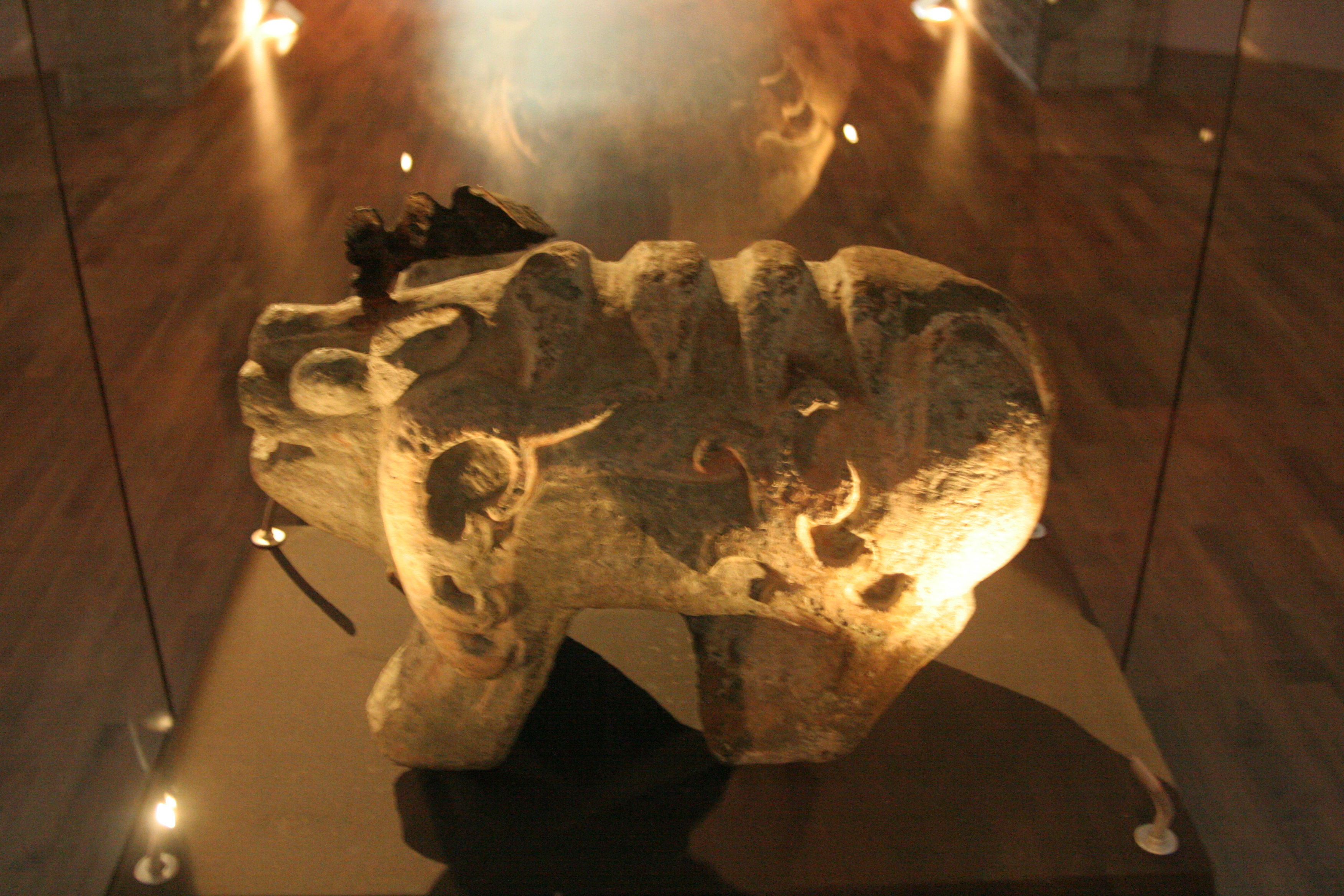 A rare tomb guardian from Baekje. Prototypes of these tomb guards are from the second Han Dynasty.